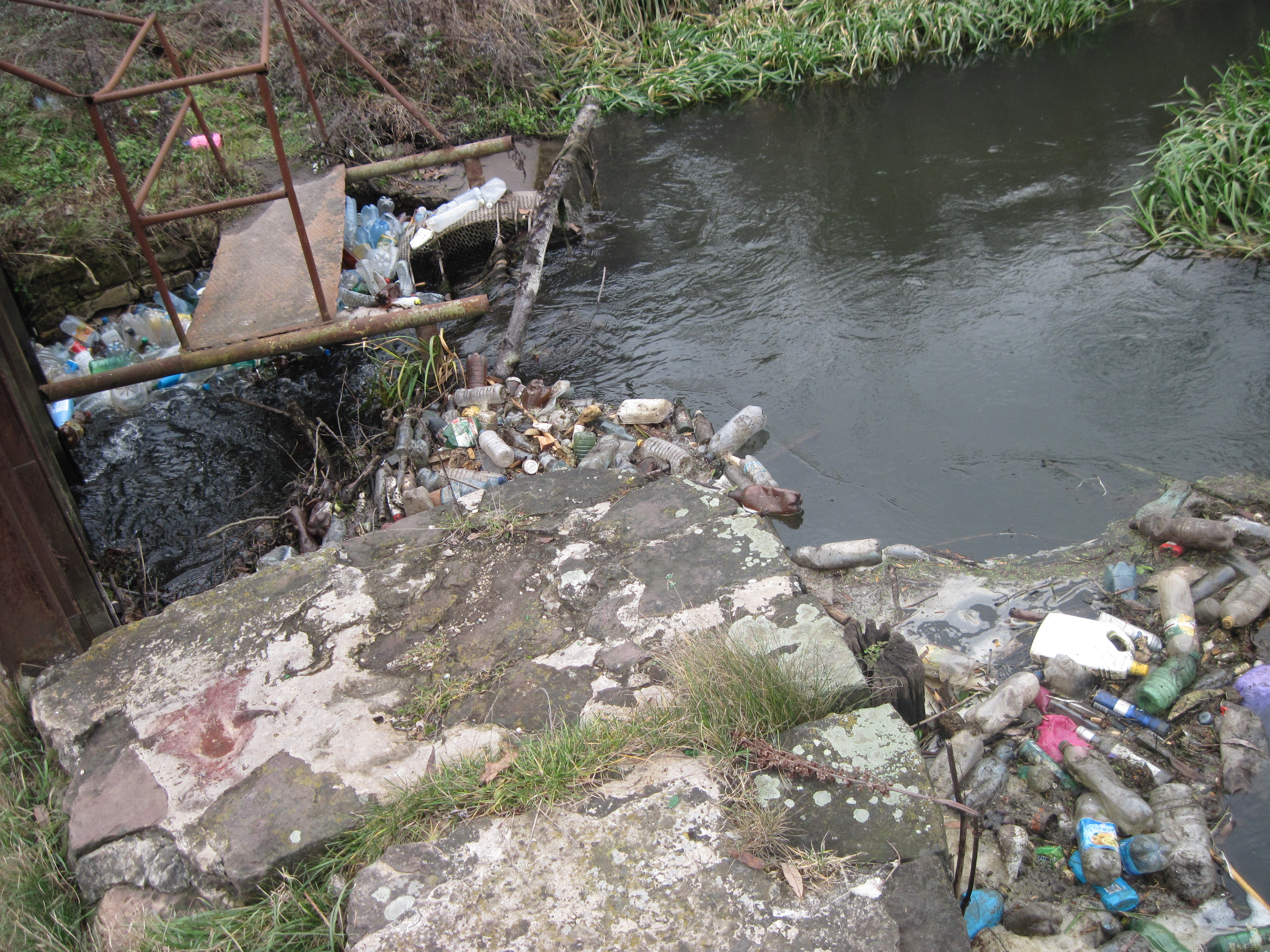 Waste in the Strypa River, Buchach, Ukraine